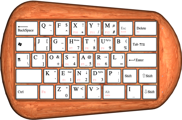 left_handed_keyboard